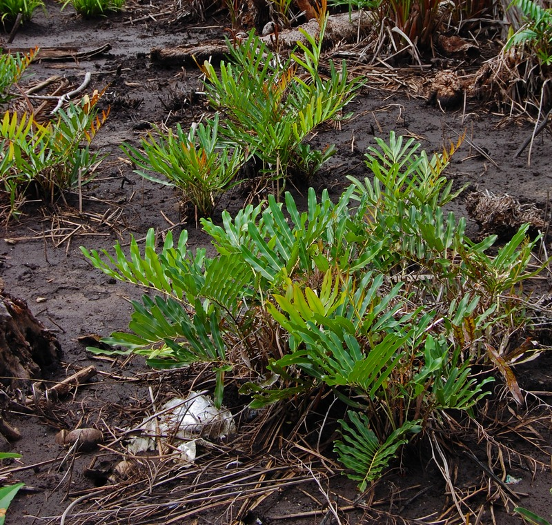 Mangrove fern, Acrostichum aureum. From Labuan Bakti, Simeulue, Indonesia.